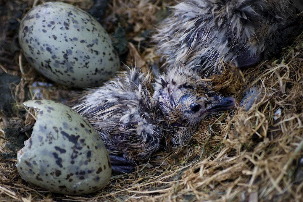 Two newly-hatched Lesser Black-backed Gull (Larus fuscus) chicks on the island of Flat Holm, Wales